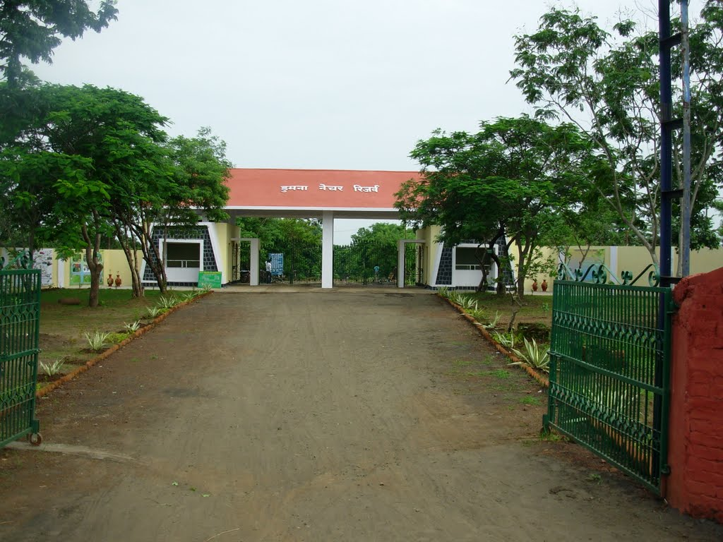 It is the main gate of Dumna nature reserve park constructed by the manciple commission of jabalpur